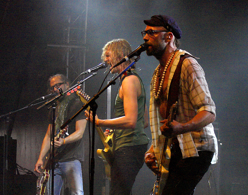 The Finnish rock band von Hertzen Brothers at Roskilde Festival 2008, Denmark